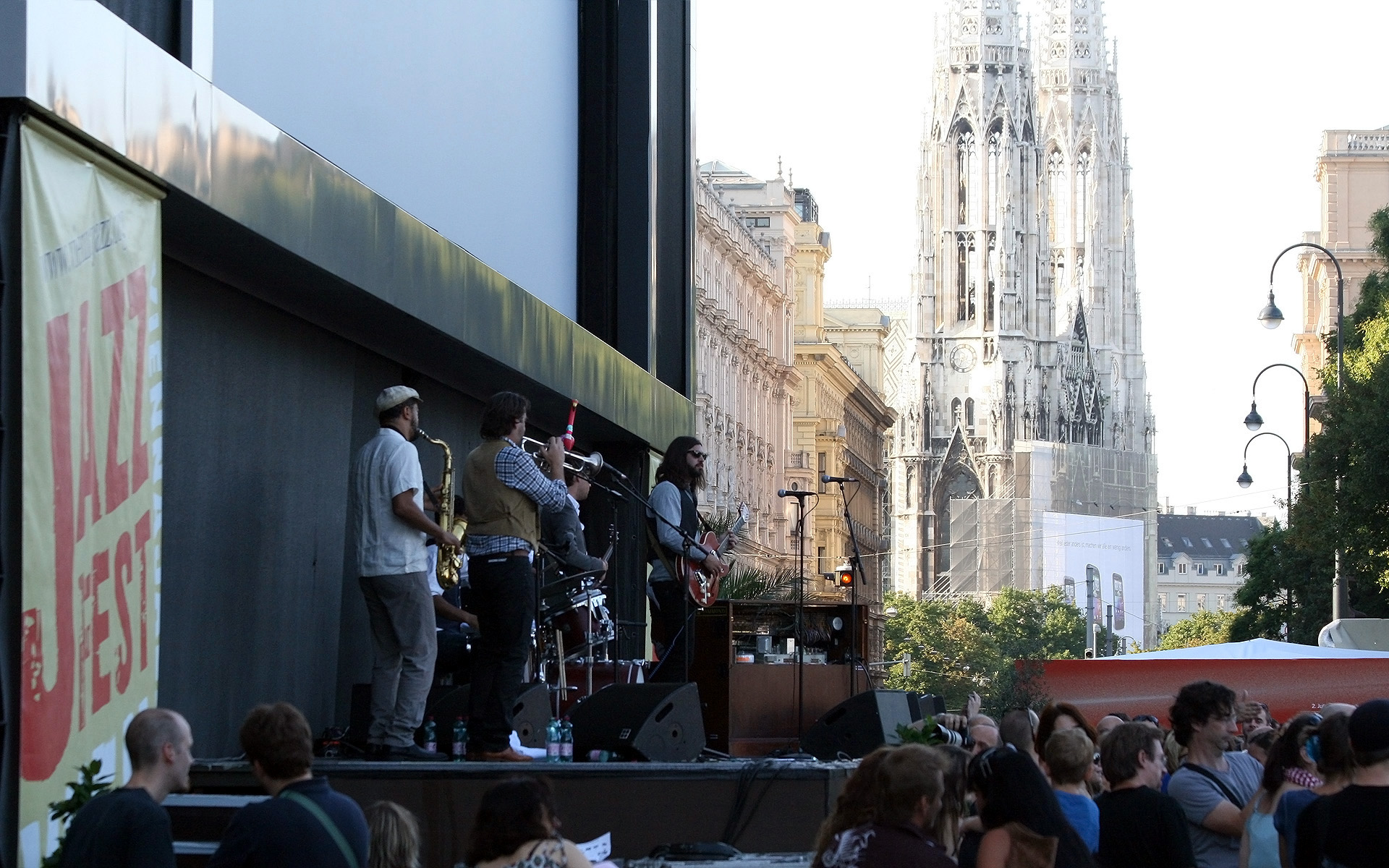 Charles Bradley & The Menahan Street Band, Jazz Fest Wien 2011 (in front of the Rathaus in Vienna).